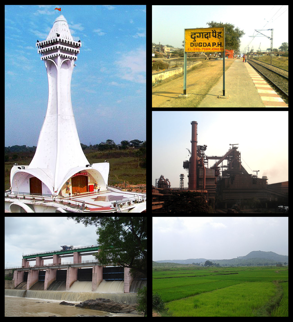 Bokaro District Montage with Images from wikimedia commons